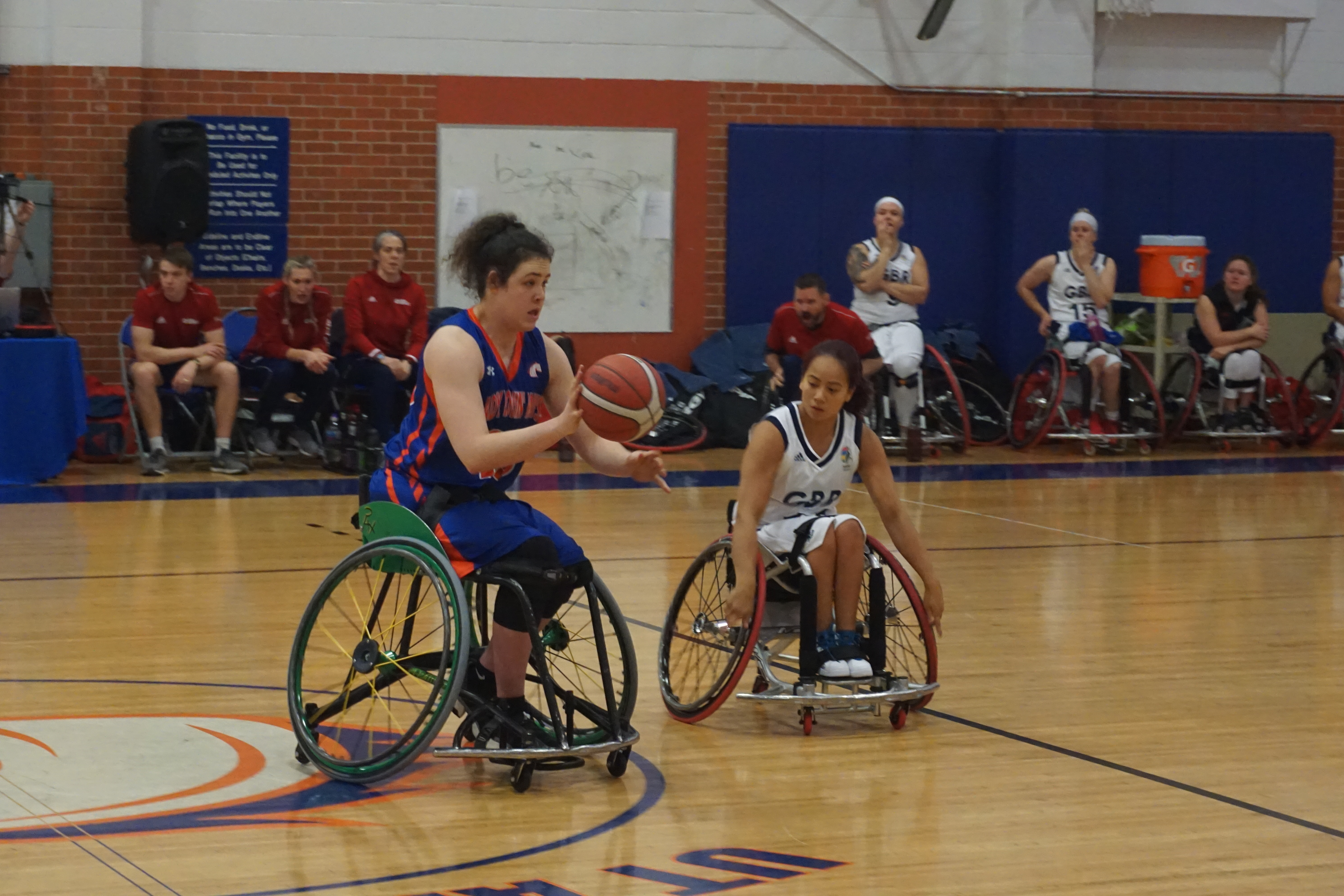 In-game action during the Great Britain vs. UT Arlington Mavericks women's wheelchair basketball game at the Physical Education Building on the campus of the University of Texas at Arlington in Arlington, Texas (United States). Great Britain won 54–38.